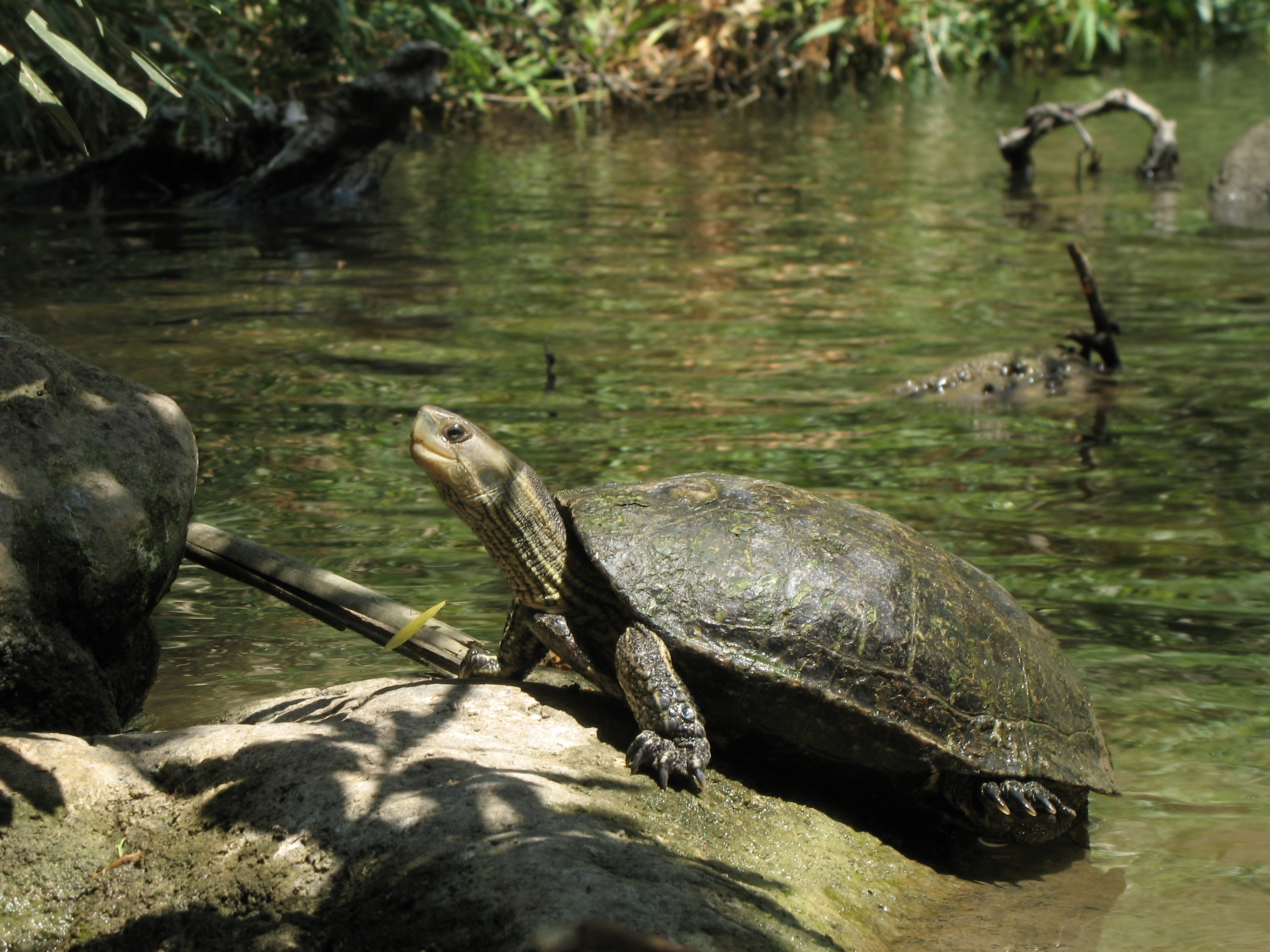 Western Caspian turtle / Striped-neck terrapin (Mauremys rivulata). Seen at "The white Fall" of El-Al river, south of Golan Heights.